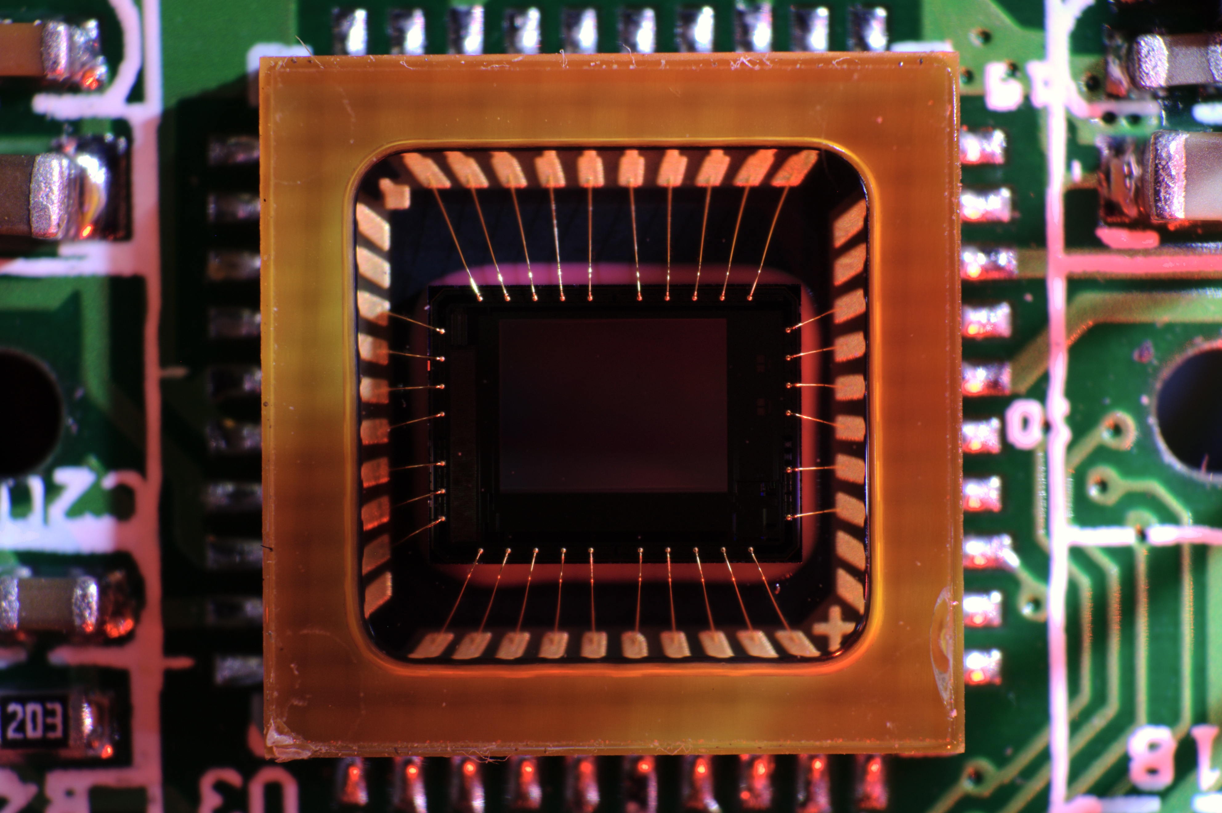 Macro image of a Webcam CCD (manufactured in 2004), a 640x480 colour sensor, on its printed circuit board.